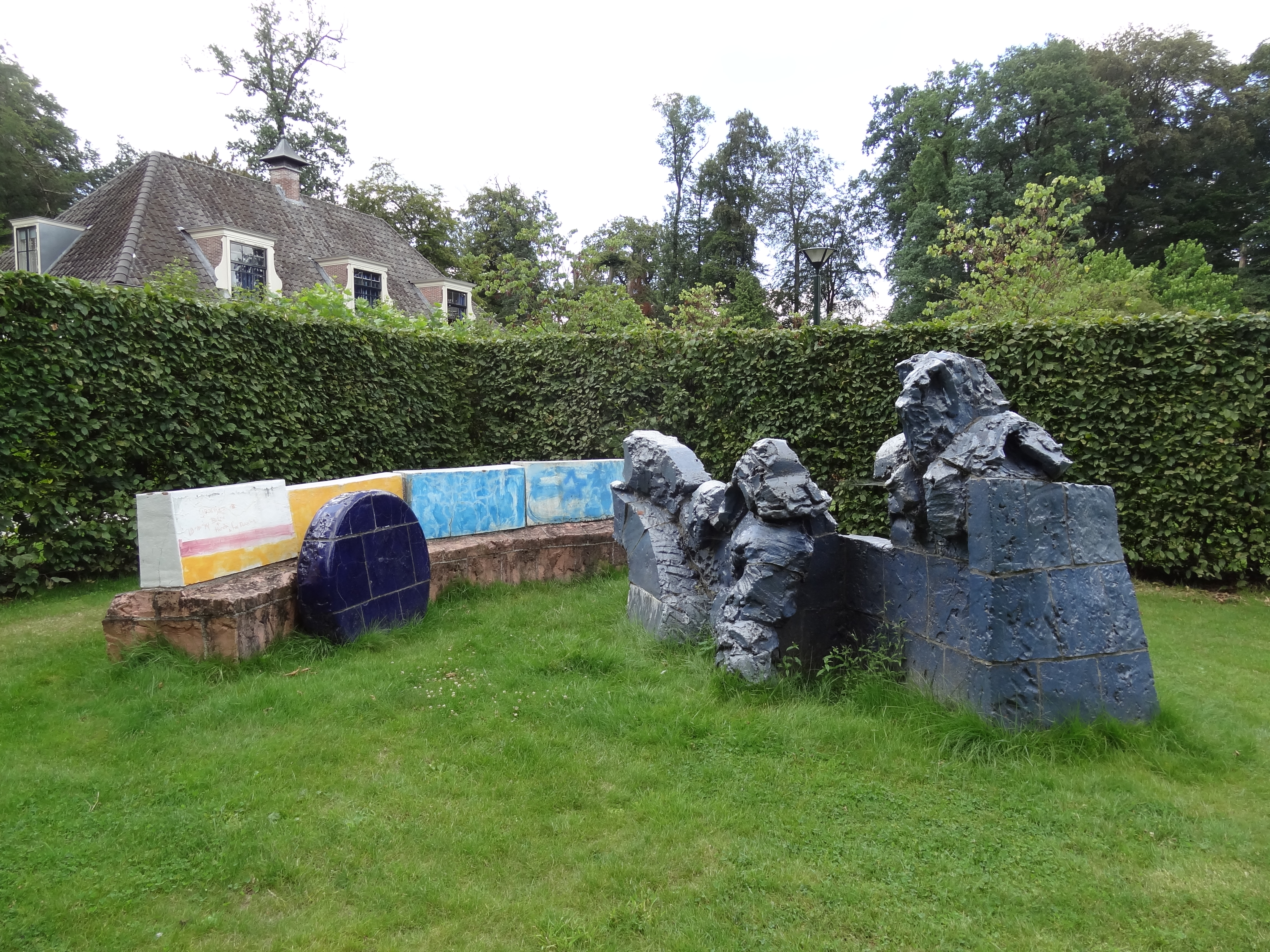 Sculpture by David van de Kop in Park Randenbroek in Amersfoort, The Netherlands